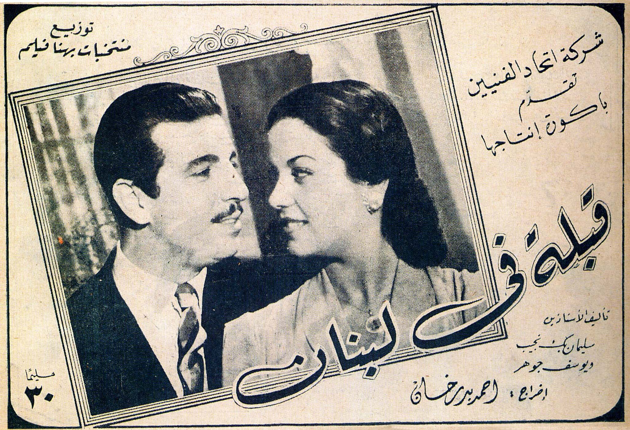 Movie poster of the Egyptian film Kubla fi Lubnan (1945).[1]